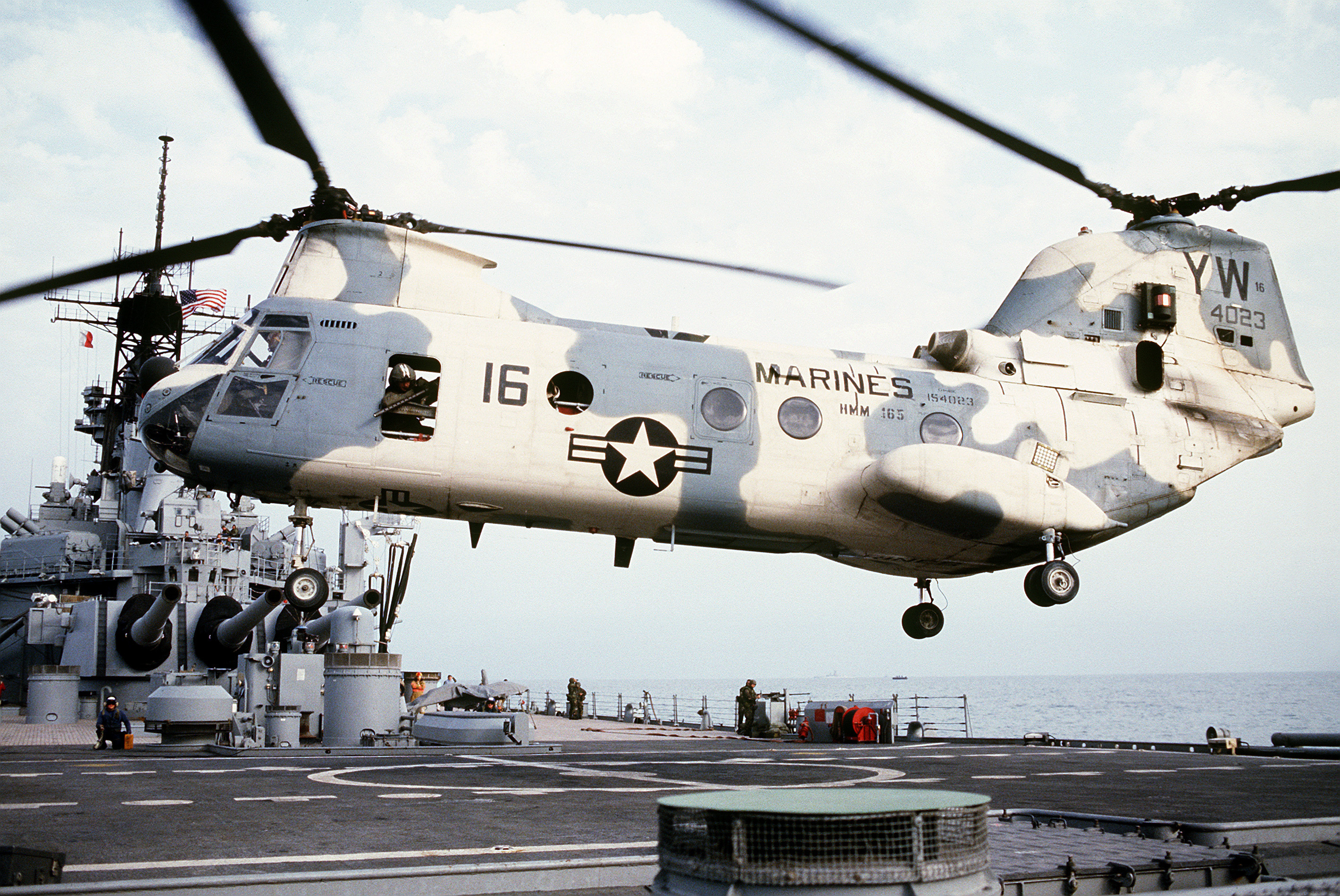 A U.S. Marine Corps Boeing Vertol CH-46D Sea Knight (BuNo 154023) of Marine Medium Helicopter Squadron 165 (HMM-165) prepares to land aboard the battleship USS Wisconsin (BB-64). The helicopter was transporting Allied military personnel who were coming aboard the ship to be briefed by the Wisconsin´s Commanding Officer, Capt. D.S. Bill. The meeting was taking place during the 1991 Gulf War.